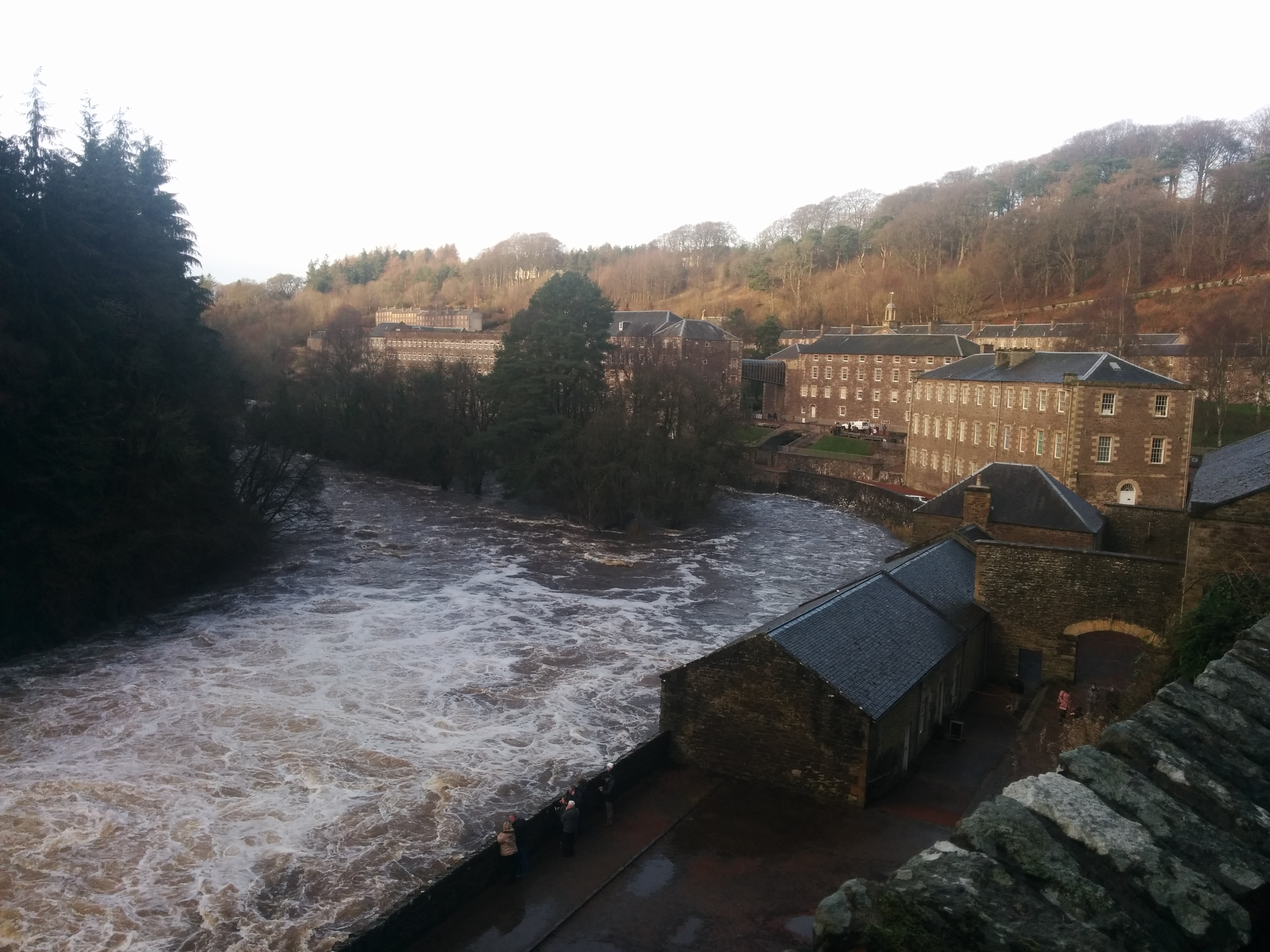 New Lanark was built by Robert Owen and it is a World Heritage Site. It was powered by the Falls of Clyde - here the water is in full spate in December 2015